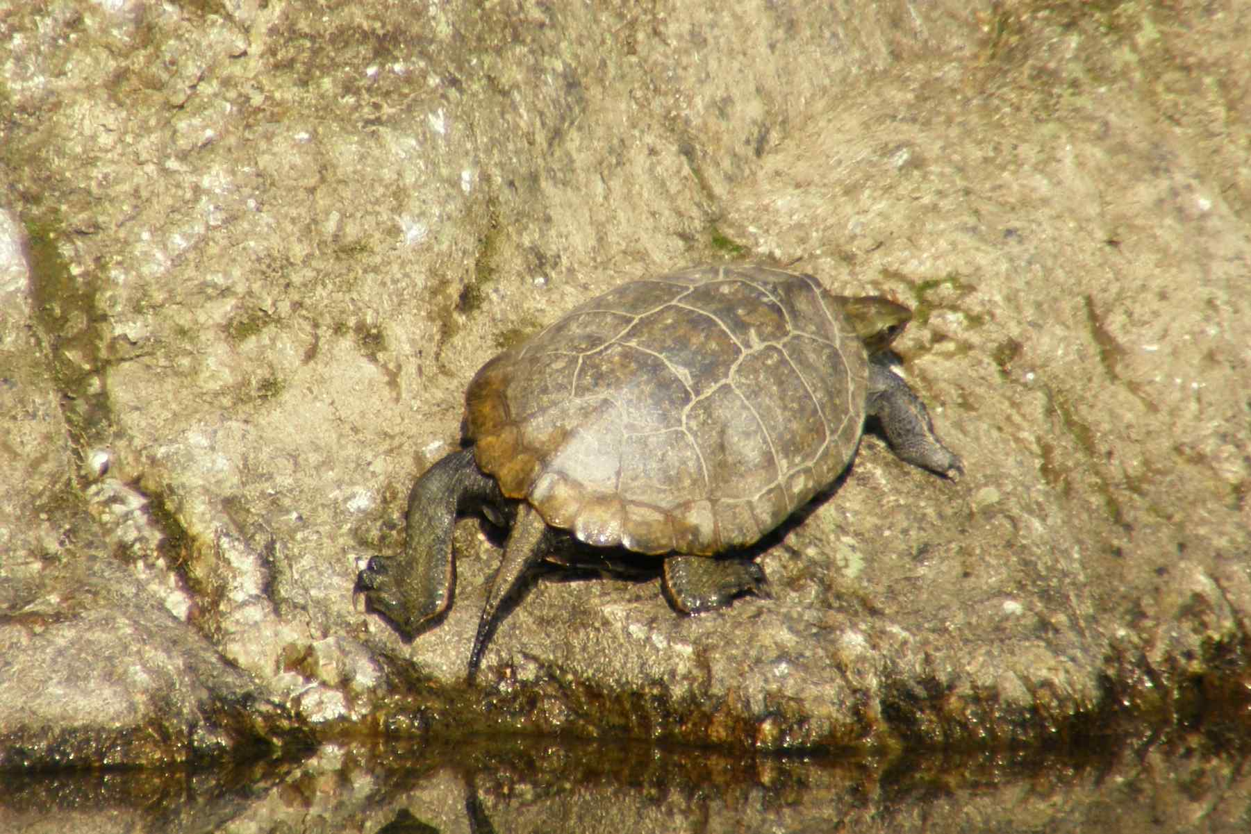 Mauremys japonica at Ise city Mie Prf. Japan.